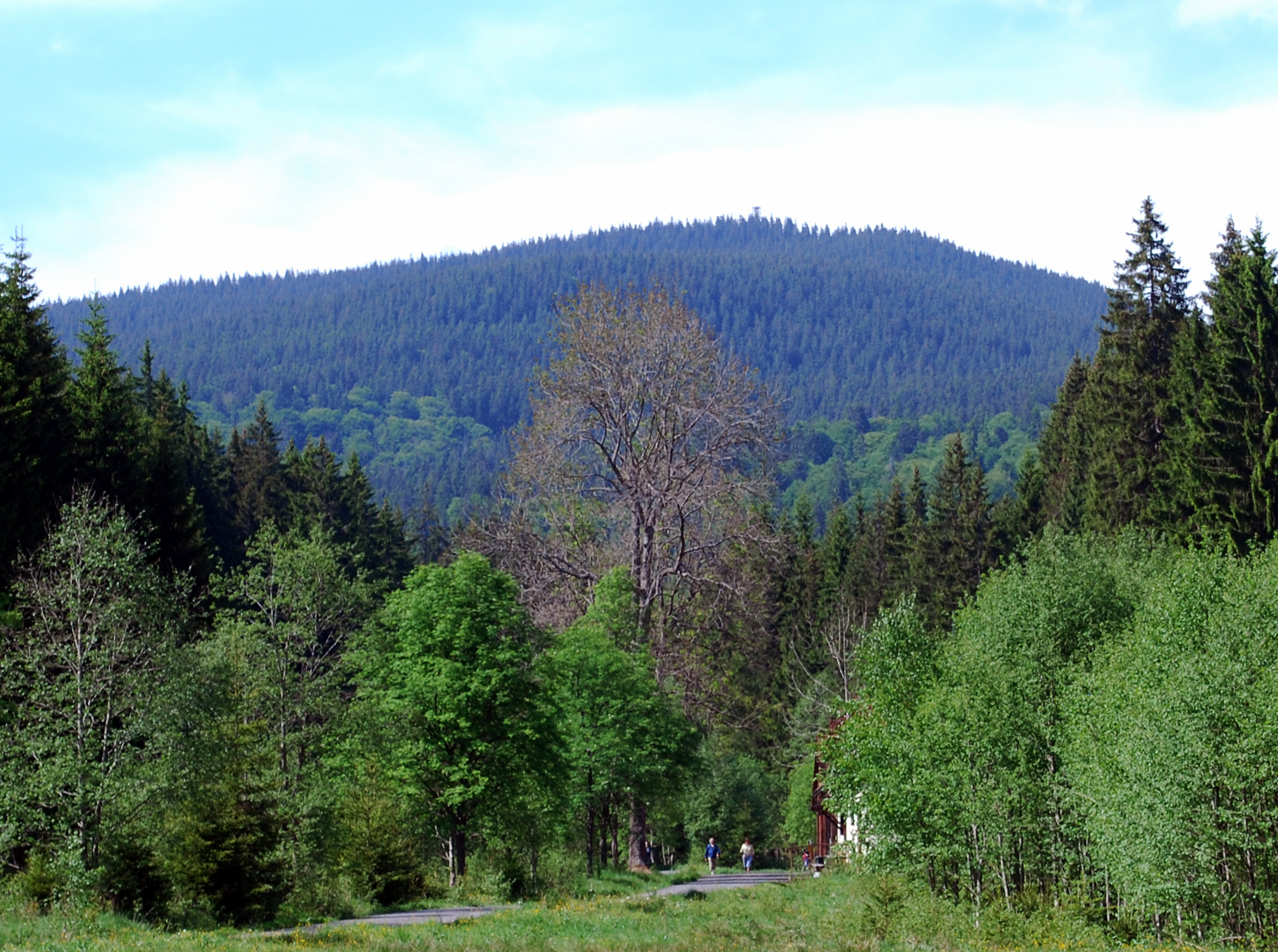 Boubin from S